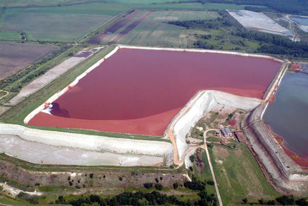 Ajka, alumina waste pond, Veszprém county, Hungary, aerial photography This picture is © copyright Civertan Grafikai Stúdió (Civertan Bt.), 1997-2006.; has been verified that Commons user Civertan is controlled by Civertan Grafikai Stúdió and that it is allowed to relicense content copyrighted to this organization. This work is free and may be used by anyone for any purpose. If you wish to use this content, you do not need to request permission as long as you follow any licensing requirements mentioned on this page.